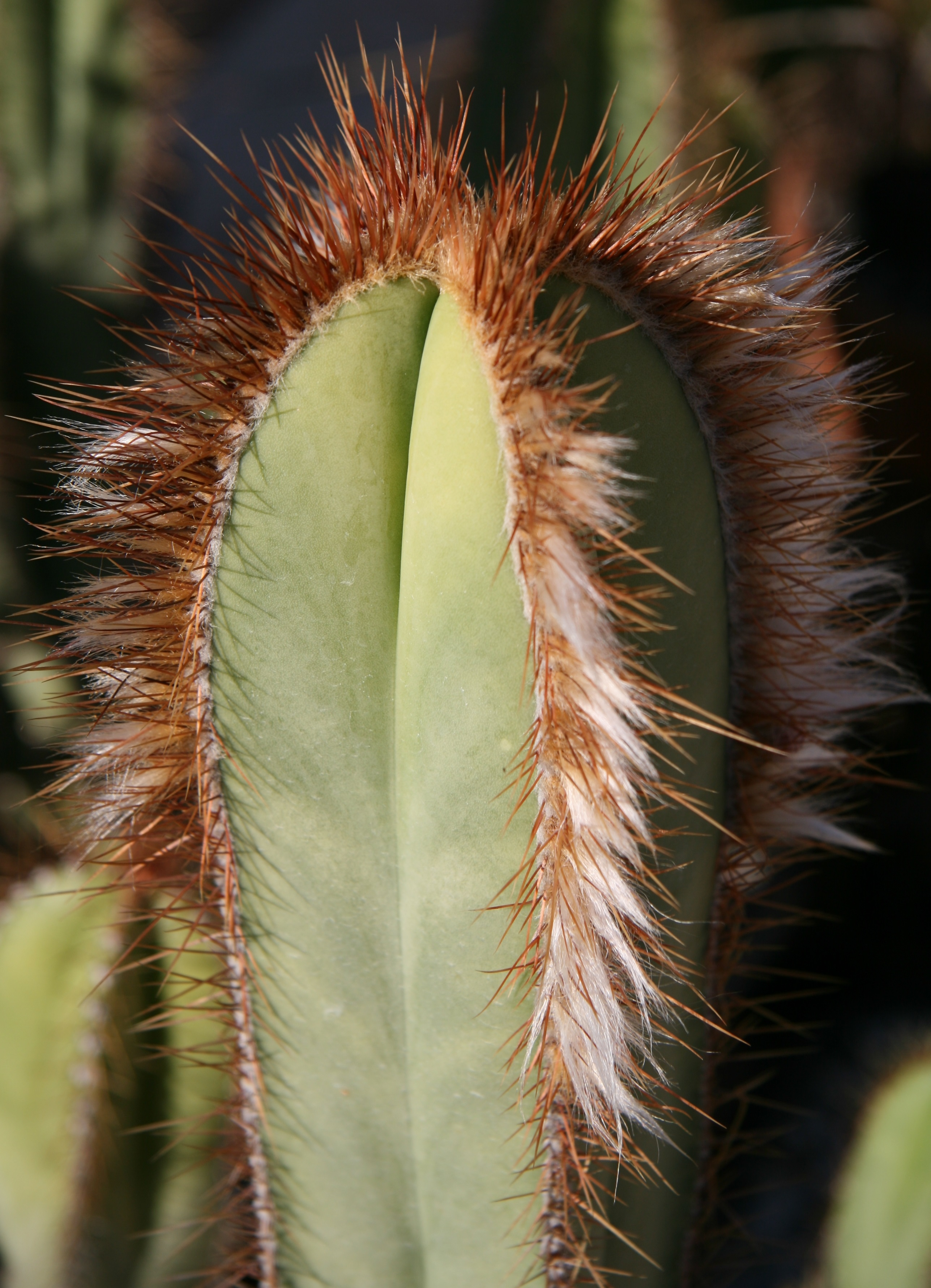 plant of holotype collection, Minas Gerais, Brasil